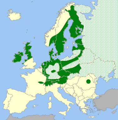 Distribution map of Large Heath or Common Ringlet (Coenonympha tullia) in Europe.